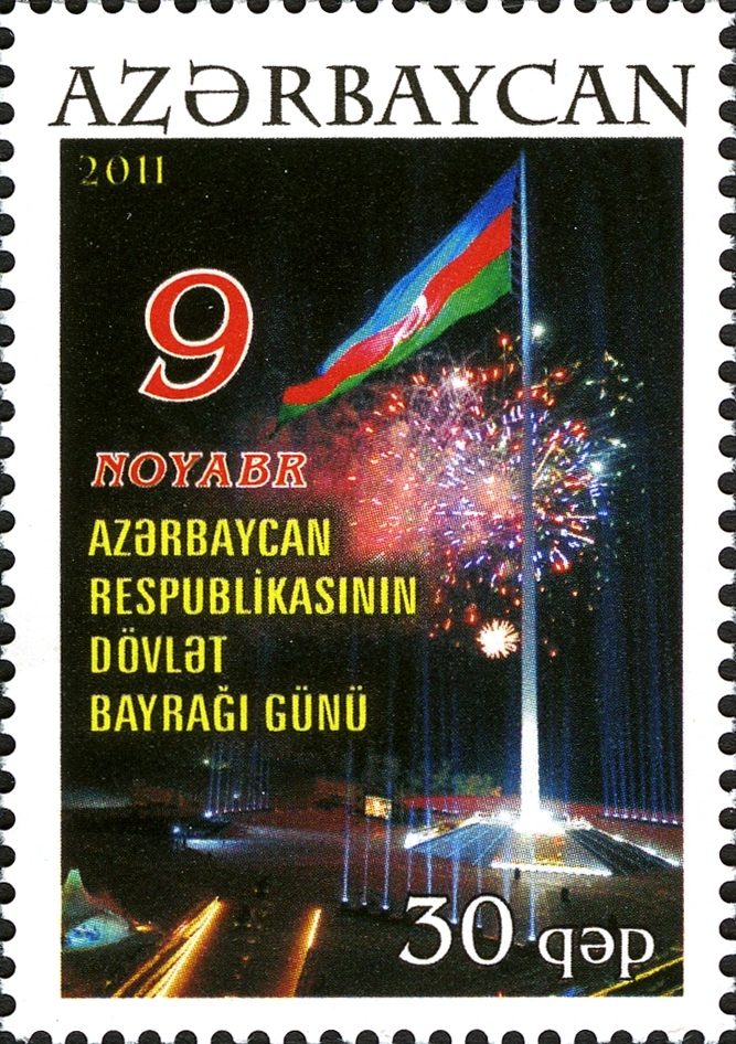 The 9th of November - the National Flag Day of the Republic of Azerbaijan.